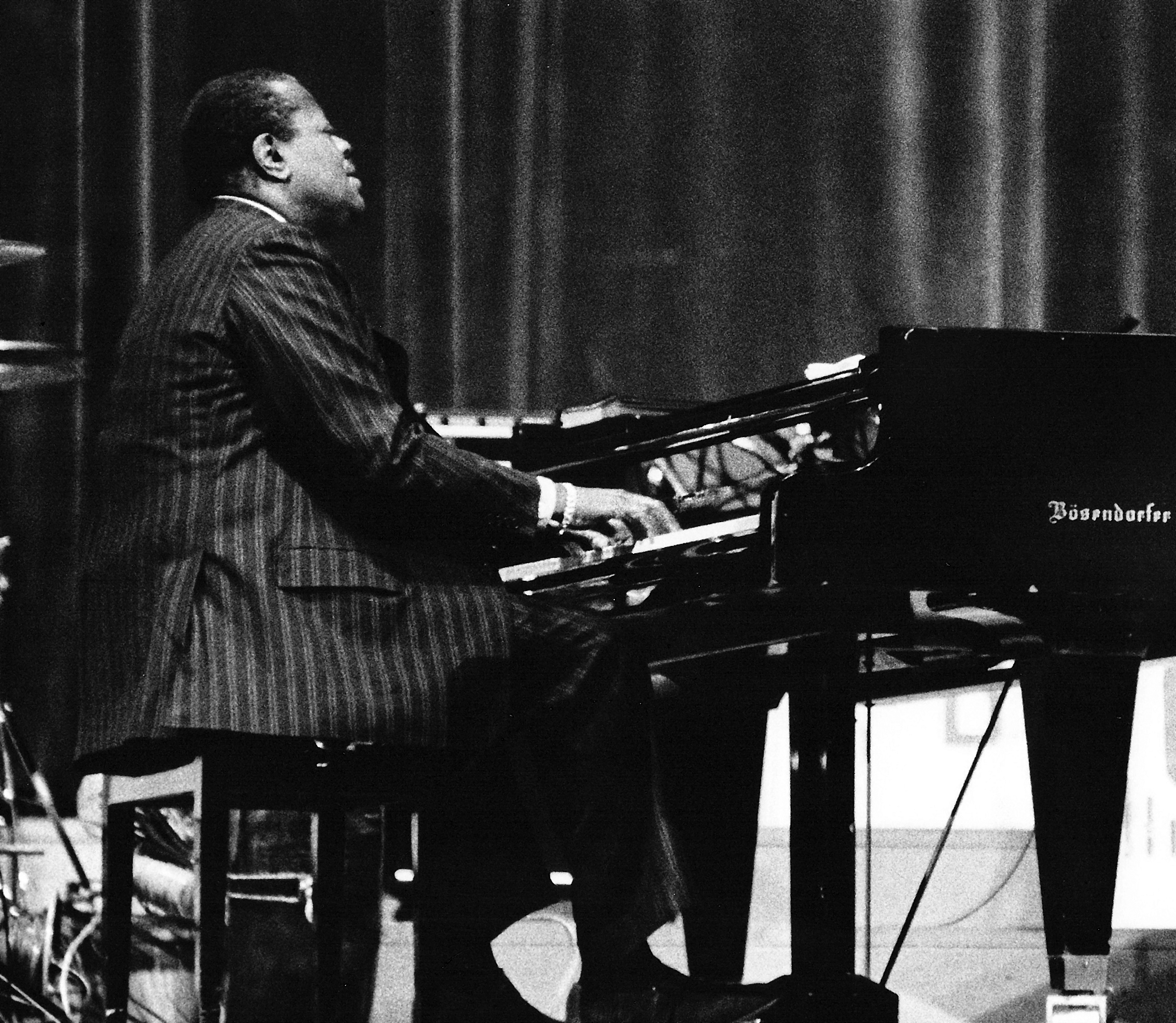 Oscar Peterson plays piano, Munich 1977